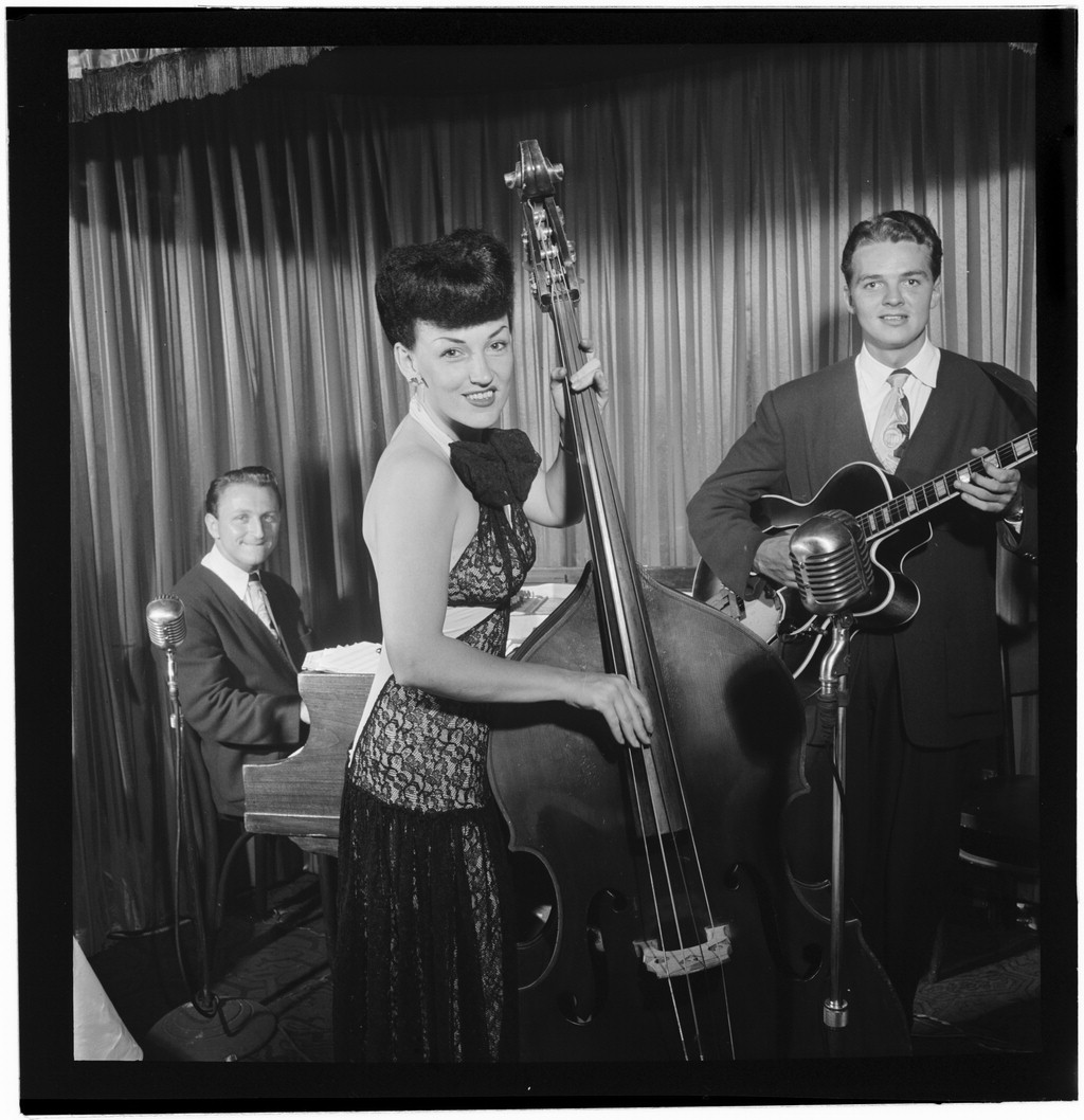 Gottlieb, William P., 1917-, photographer. Vivien Garry, and Arv(in) Charles Garrison, New York, N.Y., between 1946 and 1948] 1 negative : b&w ; 2 1/4 x 2 1/4 in. Notes: Gottlieb Collection Assignment No. 520 Reference print available in Music Division, Library of Congress. Purchase William P. Gottlieb Forms part of: William P. Gottlieb Collection (Library of Congress). Subjects: Kaye, Teddy Garry, Vivien Garrison, Arv(in) Charles Women jazz musicians--1940-1950. Double bassists--1940-1950. Jazz musicians--1940-1950. Format: Portrait photographs--1940-1950. Group portraits--1940-1950. Film negatives--1940-1950. Rights Info: Mr. Gottlieb has dedicated these works to the public domain, but rights of privacy and publicity may apply. Repository: (negative) Library of Congress, Prints & Photographs Division, Washington D.C. 20540 USA, (reference print) Library of Congress, Music Division, Washington D.C. 20540 USA, Part Of: William P. Gottlieb Collection (DLC) 99-401005 General information about the Gottlieb Collection is available at Persistent URL: Call Number: LC-GLB23- 0304